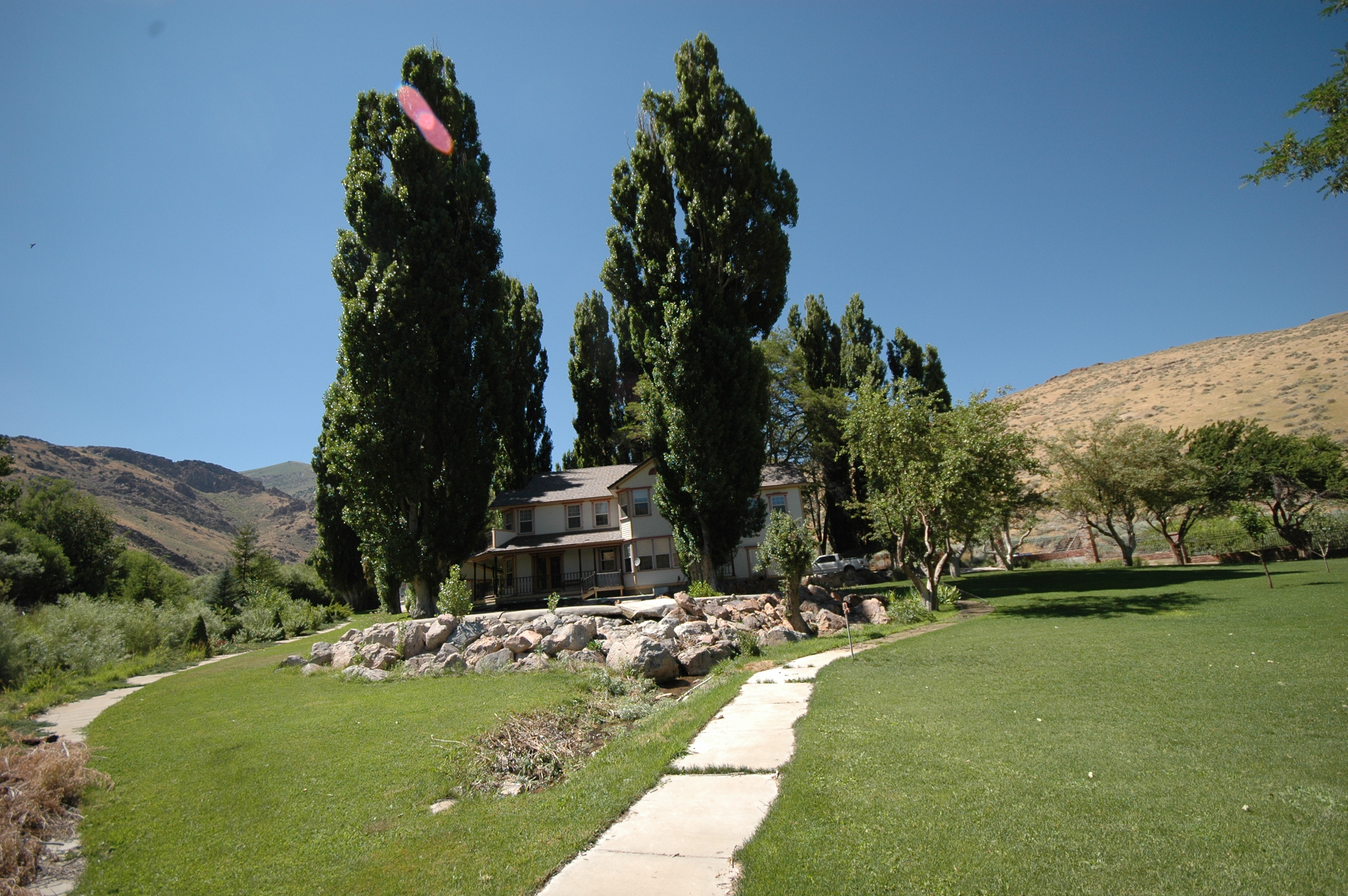 House in Unionville, Nevada